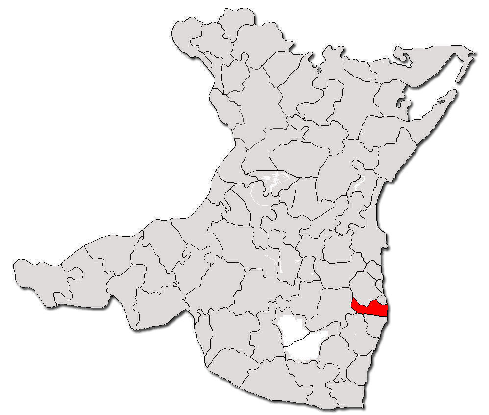 Contour of Tuzla commune